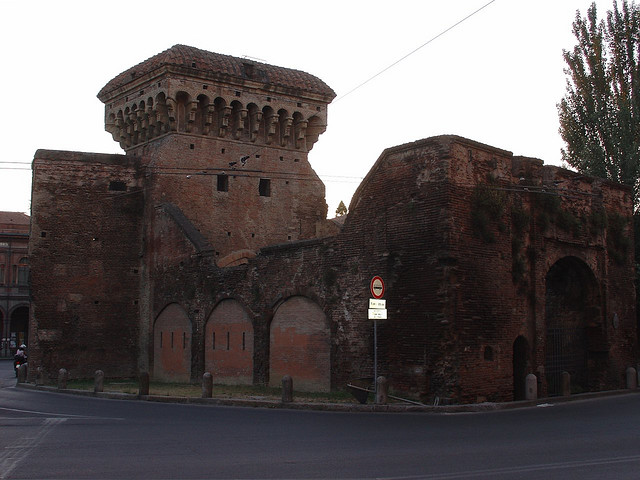 San Donato gate, part of the 3rd city walls of Bologna, 13th Century (before 2008-2009 restoration).